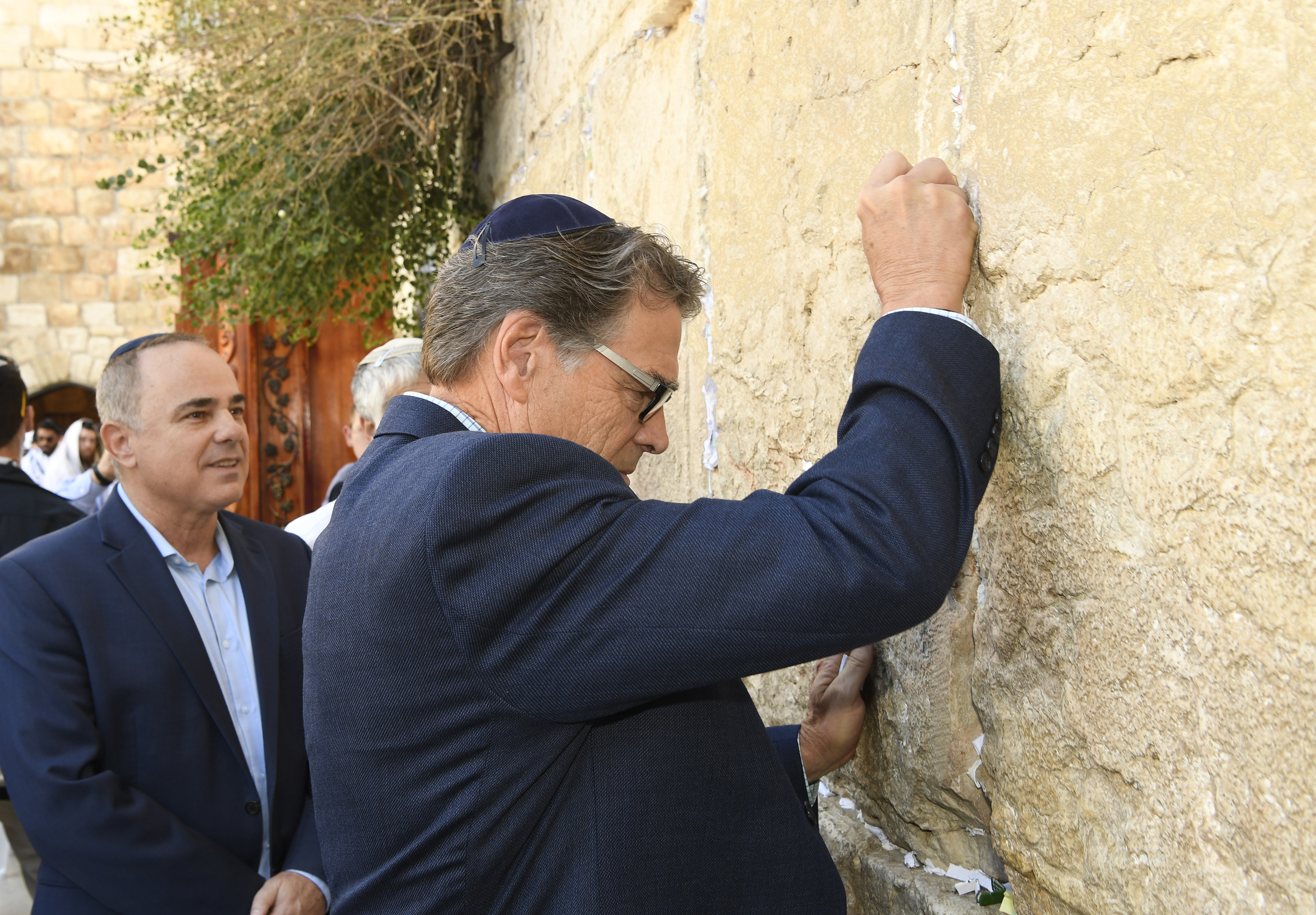 U.S. Secretary of Energy Rick Perry and his wife Anita visit Yad Vashem World Holocaust Remembrance Center in Jerusalem, July 21, 2019. The Secretary laid a wreath in the Hall of Remembrance, and signed the guest book.